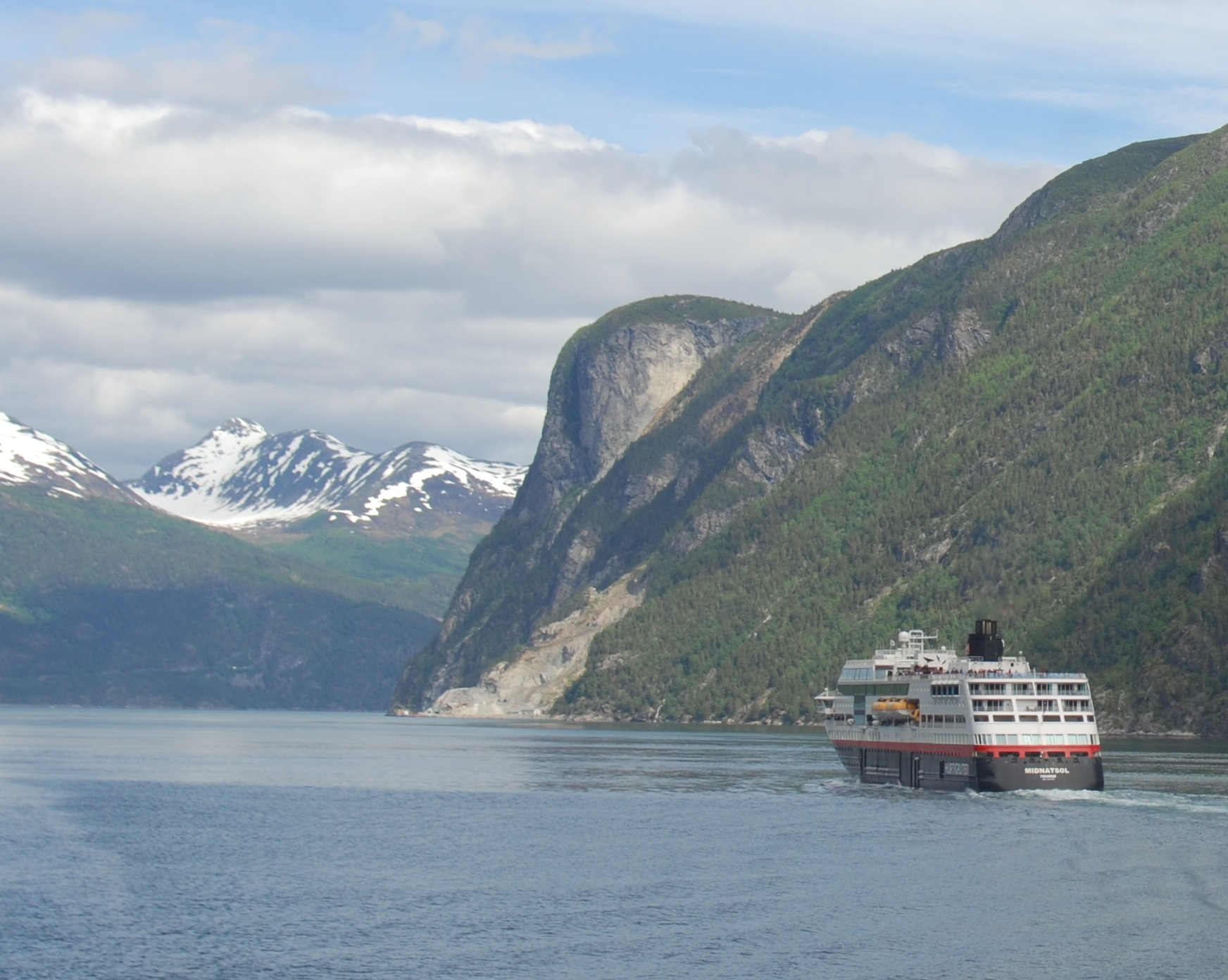 Sunnylvsfjord in Norway, MS Midtnatsol Hurtigruten, olivine surface mining centre.